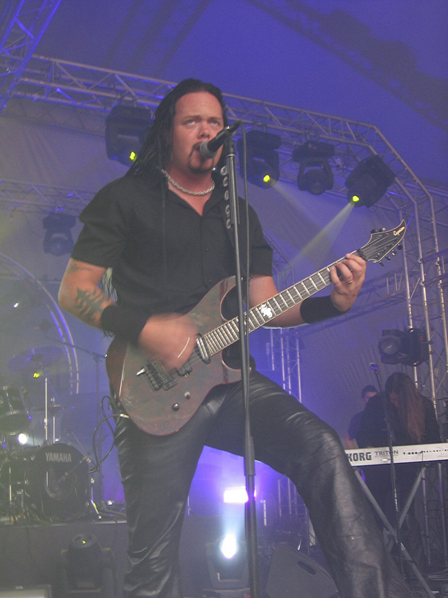 Tom S. Englund, the singer of Swedish heavy metal band Evergrey, at Tuska Open Air Metal Festival 2005.